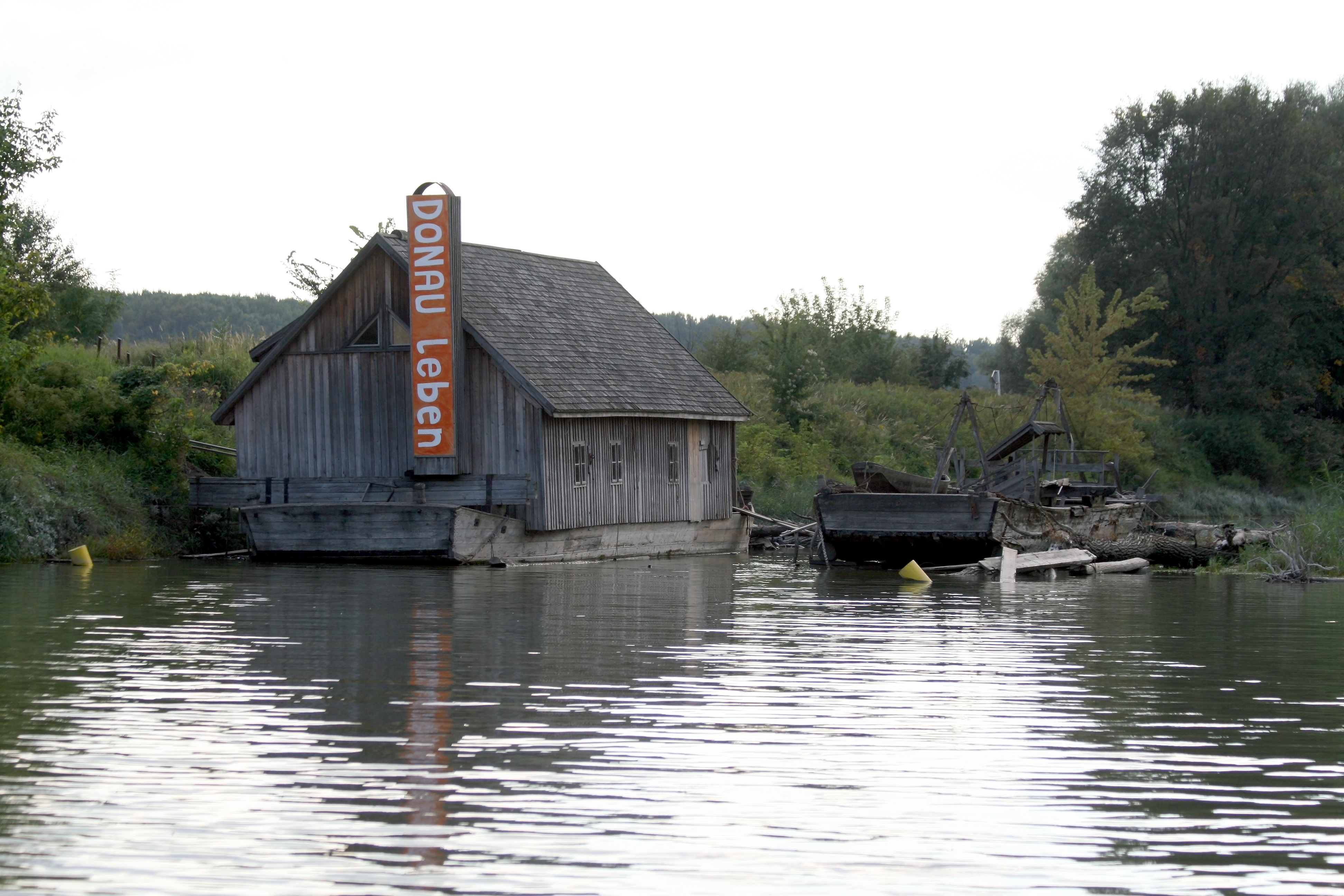 Ship mill on an anabranch of Danube river in Danube-Auen National Park (Orth an der Donau, Austria). This file shows the National Park Donau-Auen in Austria.